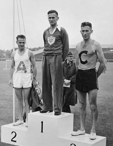 Arthur Lydiard (left), having finished second to Gordon Bromley in the New Zealand Marathon Championships, March 1949